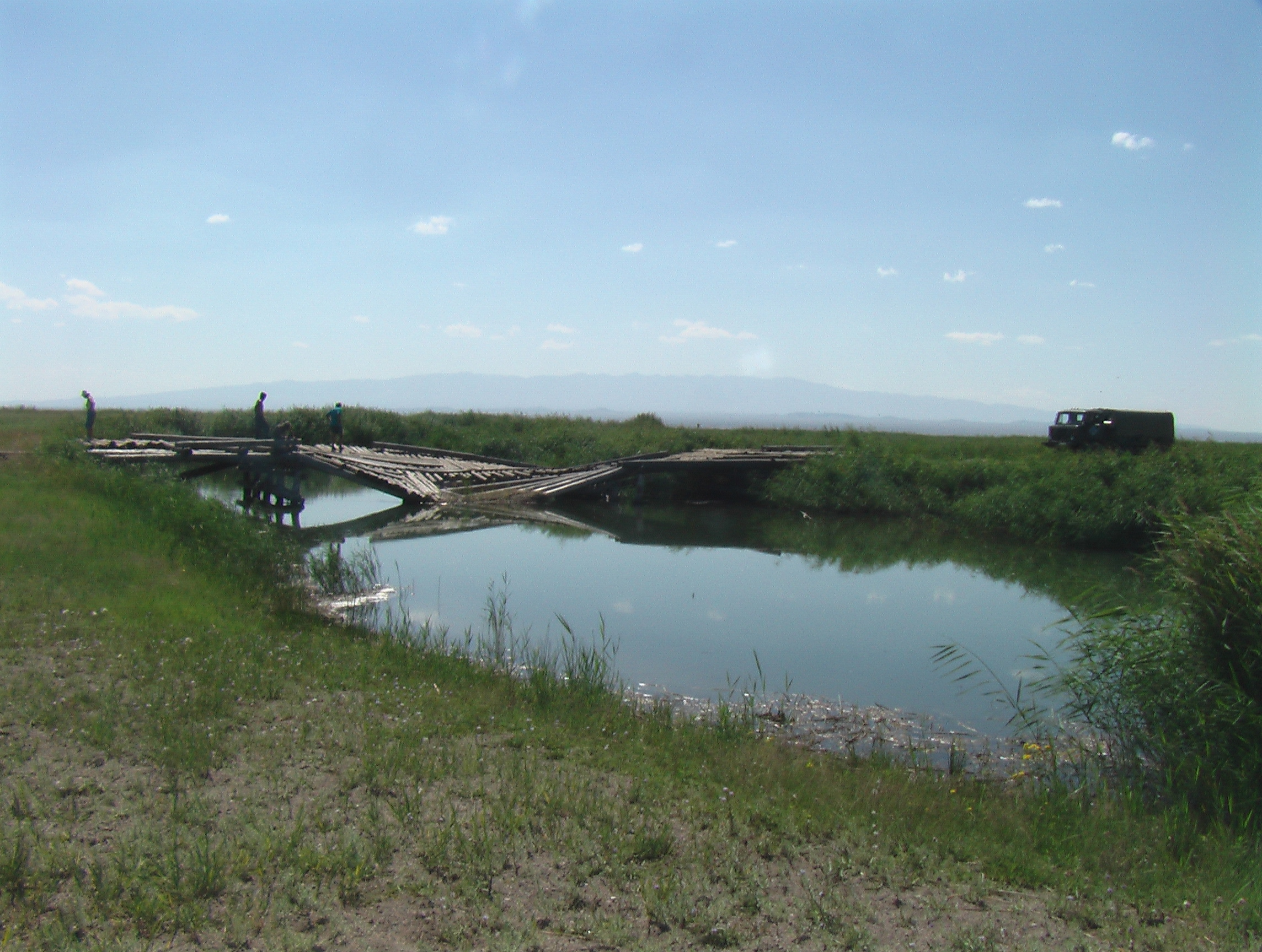 wooden bridge over the Khar-Nuur - Dörgön-Nuur lake channel